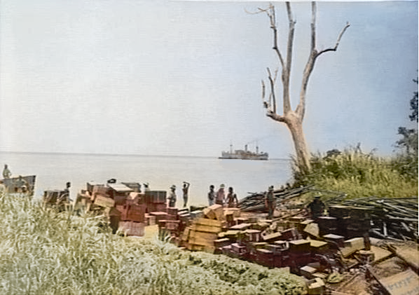 Cape hoskins with 36th Infantry Australian Battalion and the dutch troopship "Swartenhondt" in the background. Colorized photograph.